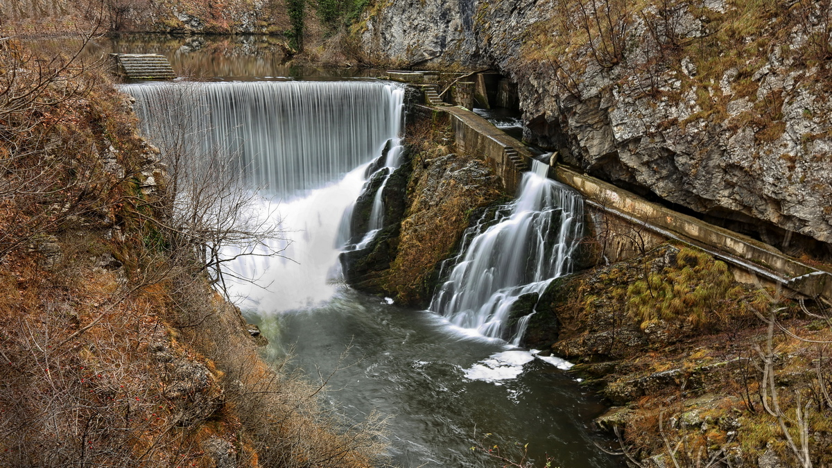 River Djetinja Serbia